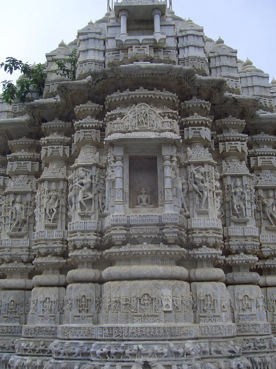 Dilwara Temples, Mount Abu, Rajasthan.